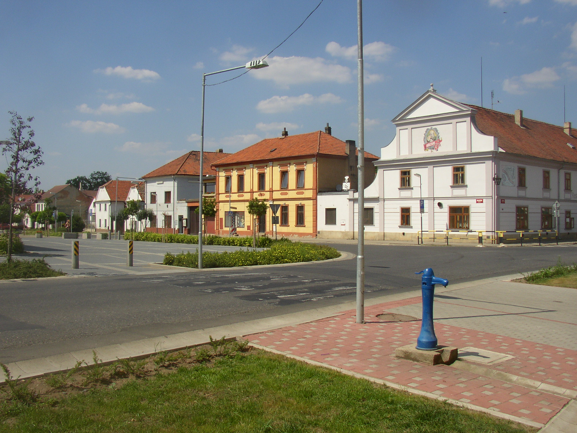 Brozany nad Ohří, Litoměřice District, Czech Republic. NE side of town square, in the right corner house no. 23, an old inn from early 19th century.